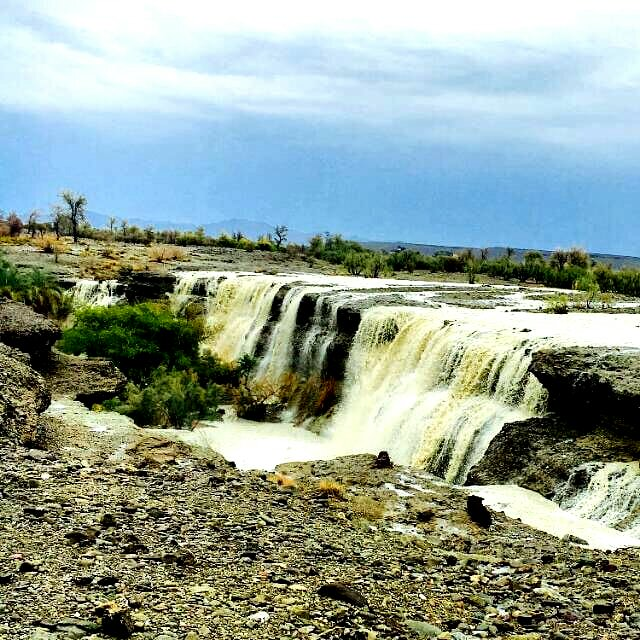 Water